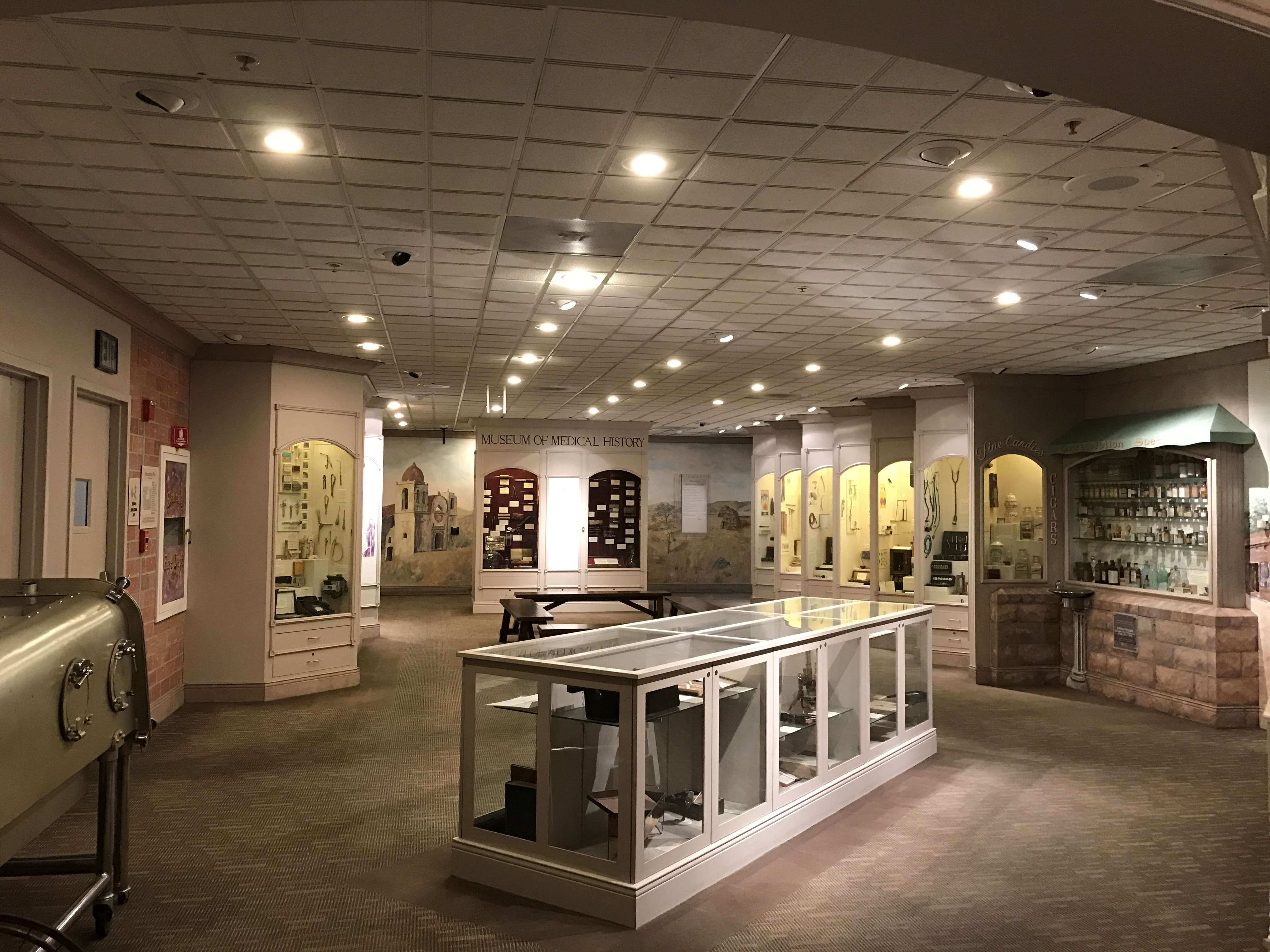 This was photographed from the entrance of the museum